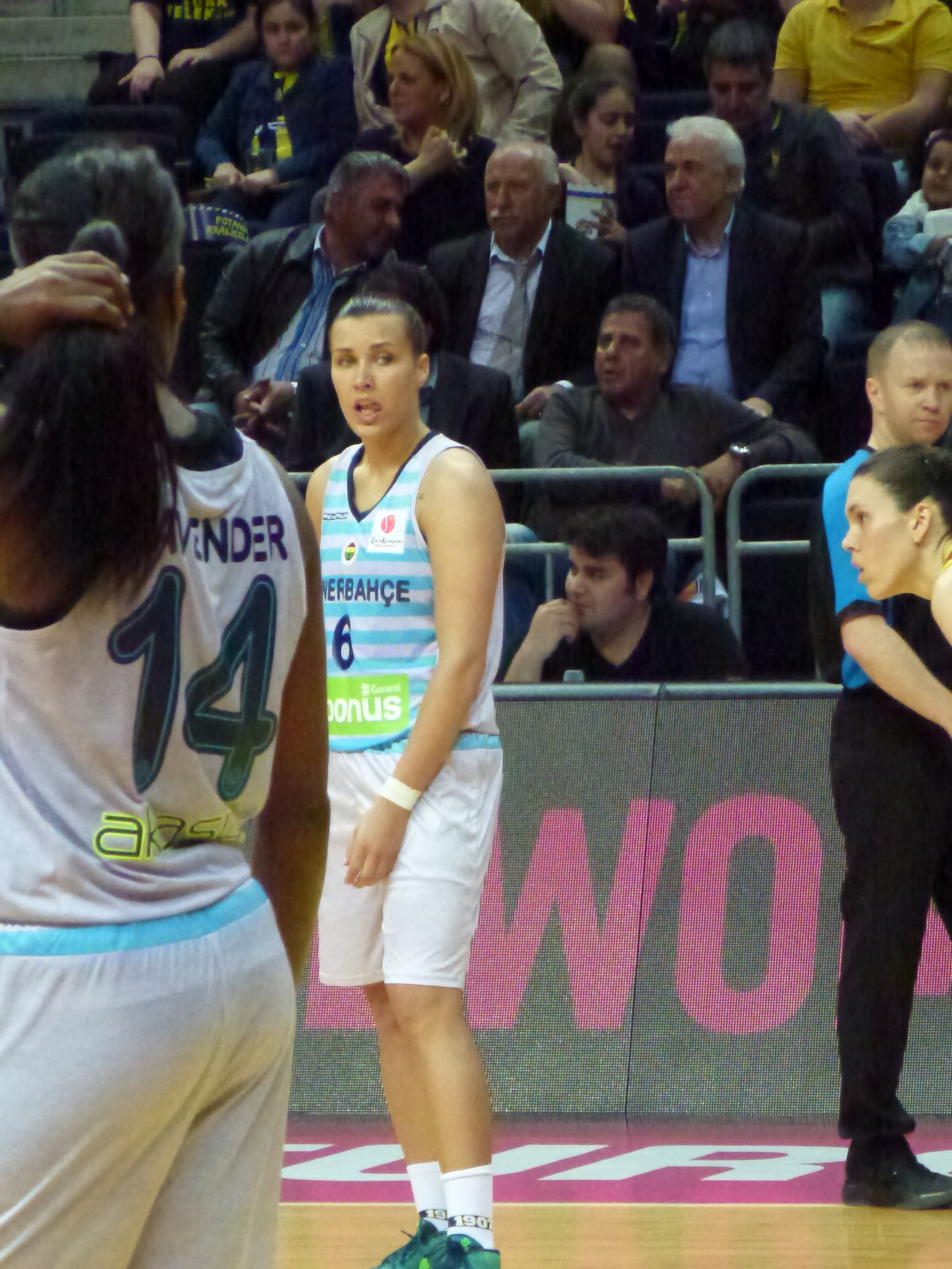 Fenerbahçe Women's Basketball - Nadezhda Orenburg 2015-16 EuroLeague Women semi final on 15 April 2016 in Ülker Sports Arena